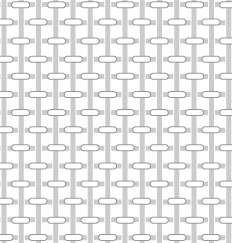 Detail of a diagram of the structure of a balanced plain weave textile.